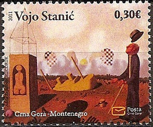 Stamp - Art of painter Vojo Stanic